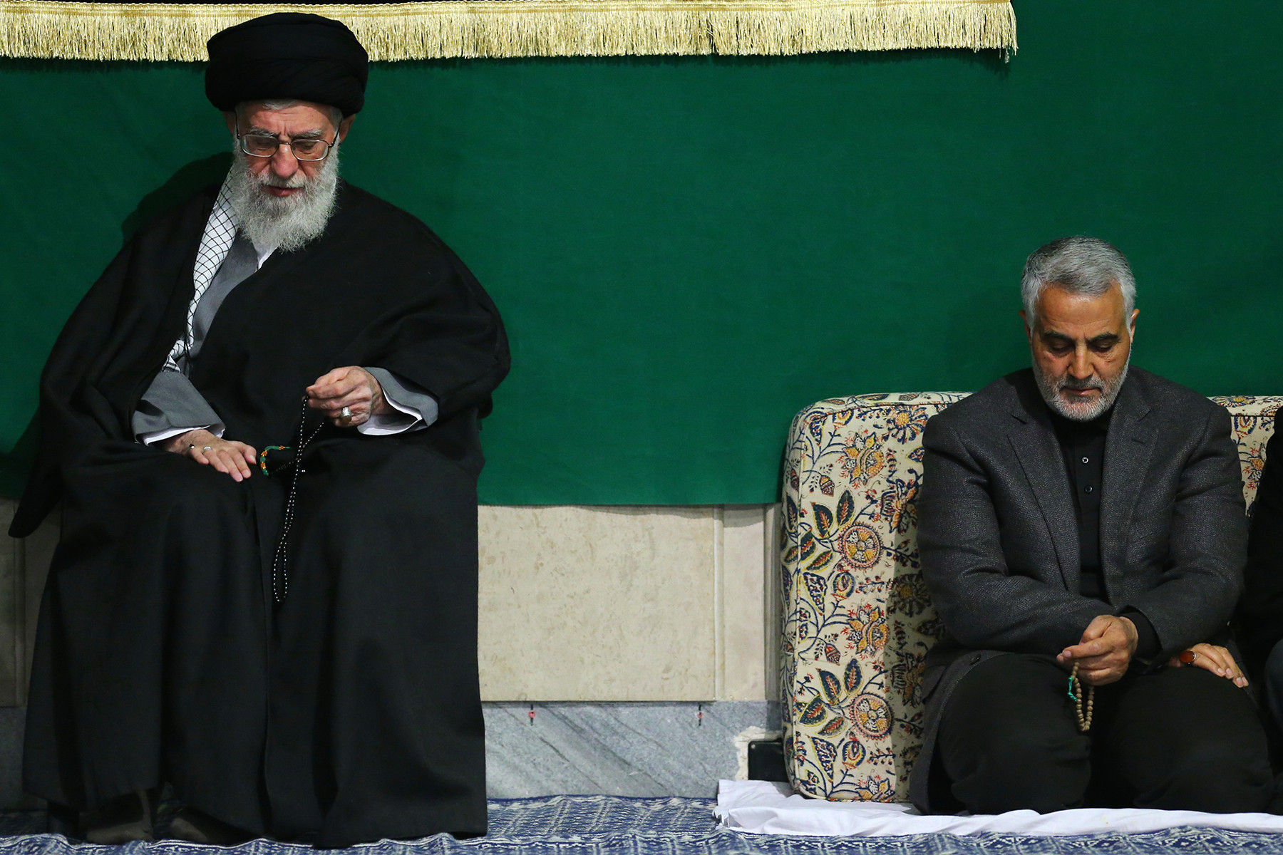 Ayatollah Sayyed Ali Khamenei and Qasem Soleimani